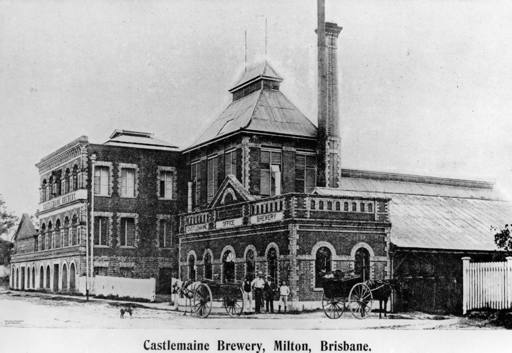 Castlemaine Brewery, Brisbane, ca. 1901. Exterior view from the street of the brick edifice of the Castlemaine Brewery. The facade with brick, arched windows is featured. A group of people pose on the corner with some horse-drawn buggies.